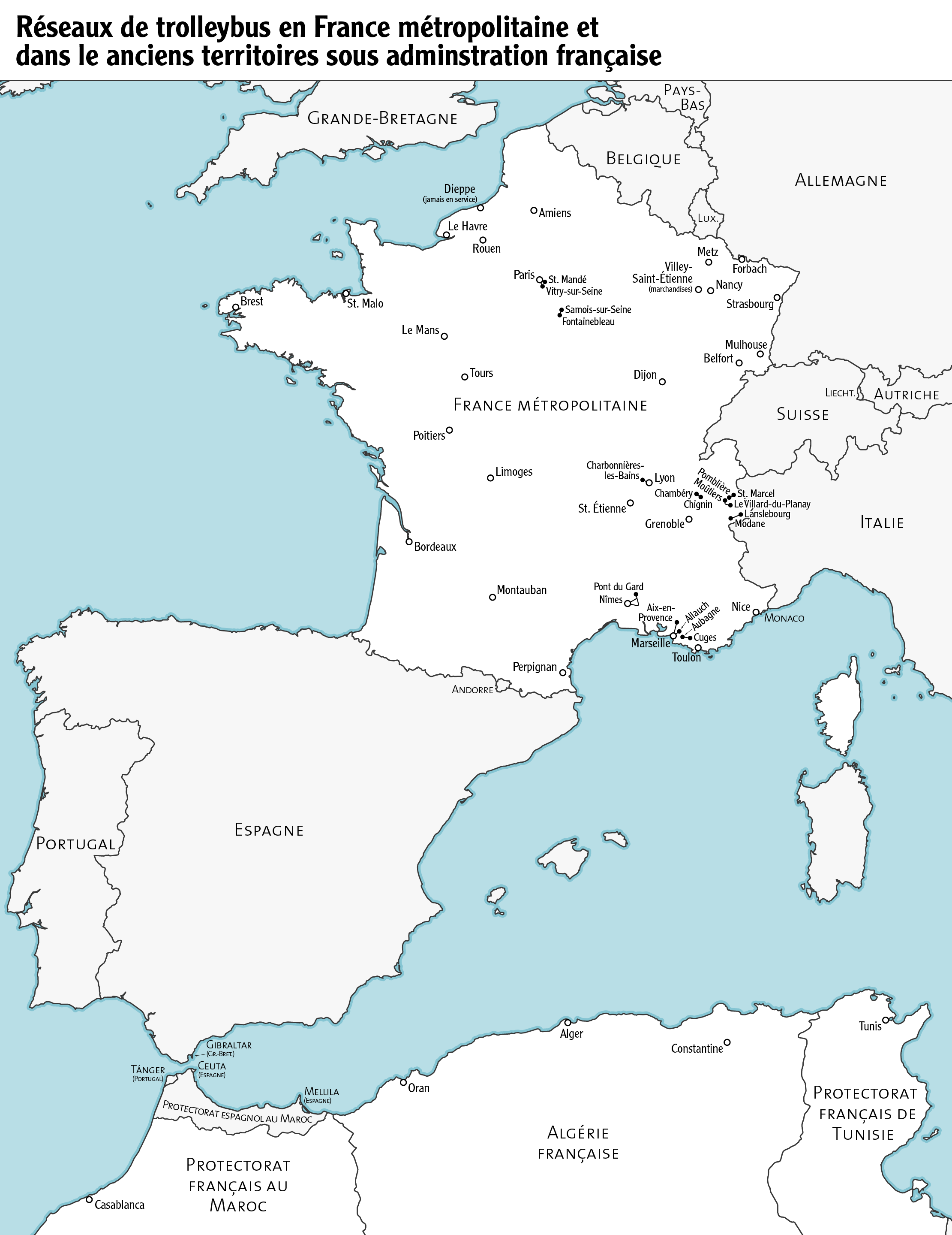 Map of the trolleybus systems in France and in the former territories under Frech administration